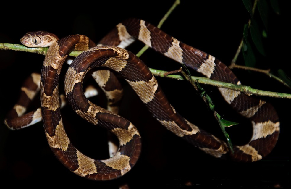 Imantodes cenchoa